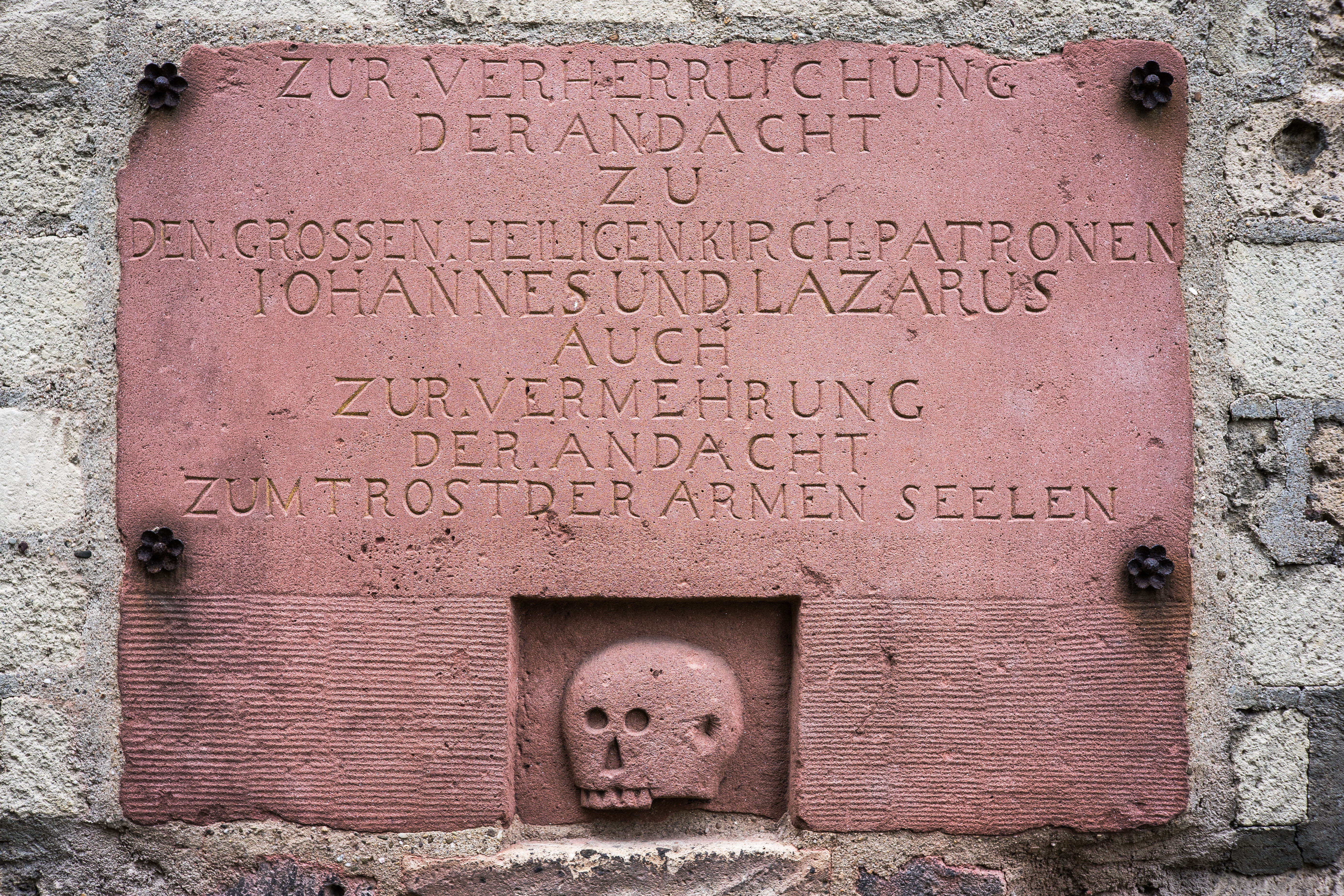 Inscription at the chapel of the Melaten cemetery in Cologne, Germany. It says "For the glorification of the prayer to the major sacred church patrones Iohannes and Lazarus and for the proliferation of the prayers for comfort of the poor souls."